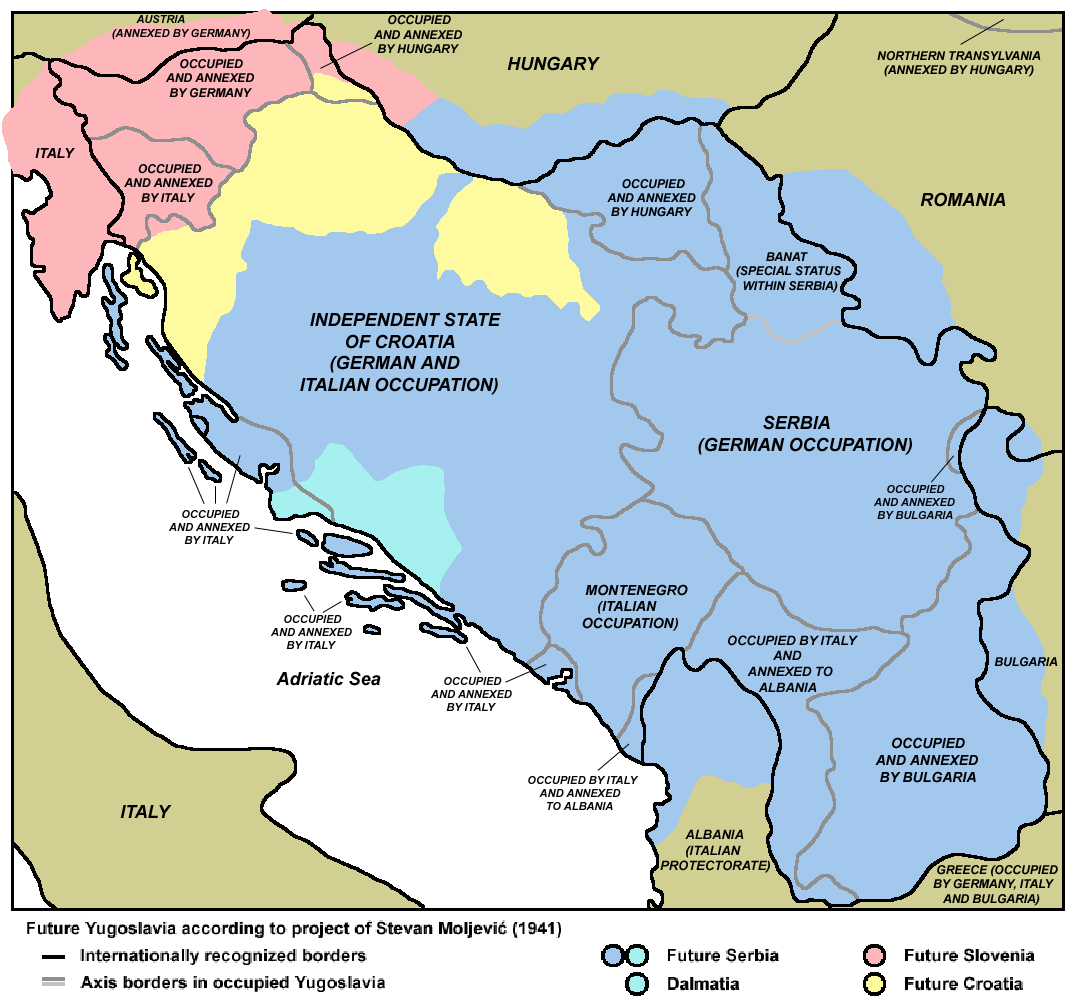 Future Yugoslavia according to project of Stevan Moljević (1941).